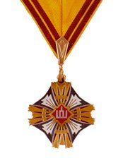 Order of the Lithuanian Grand Duke Gediminas Source: [1]